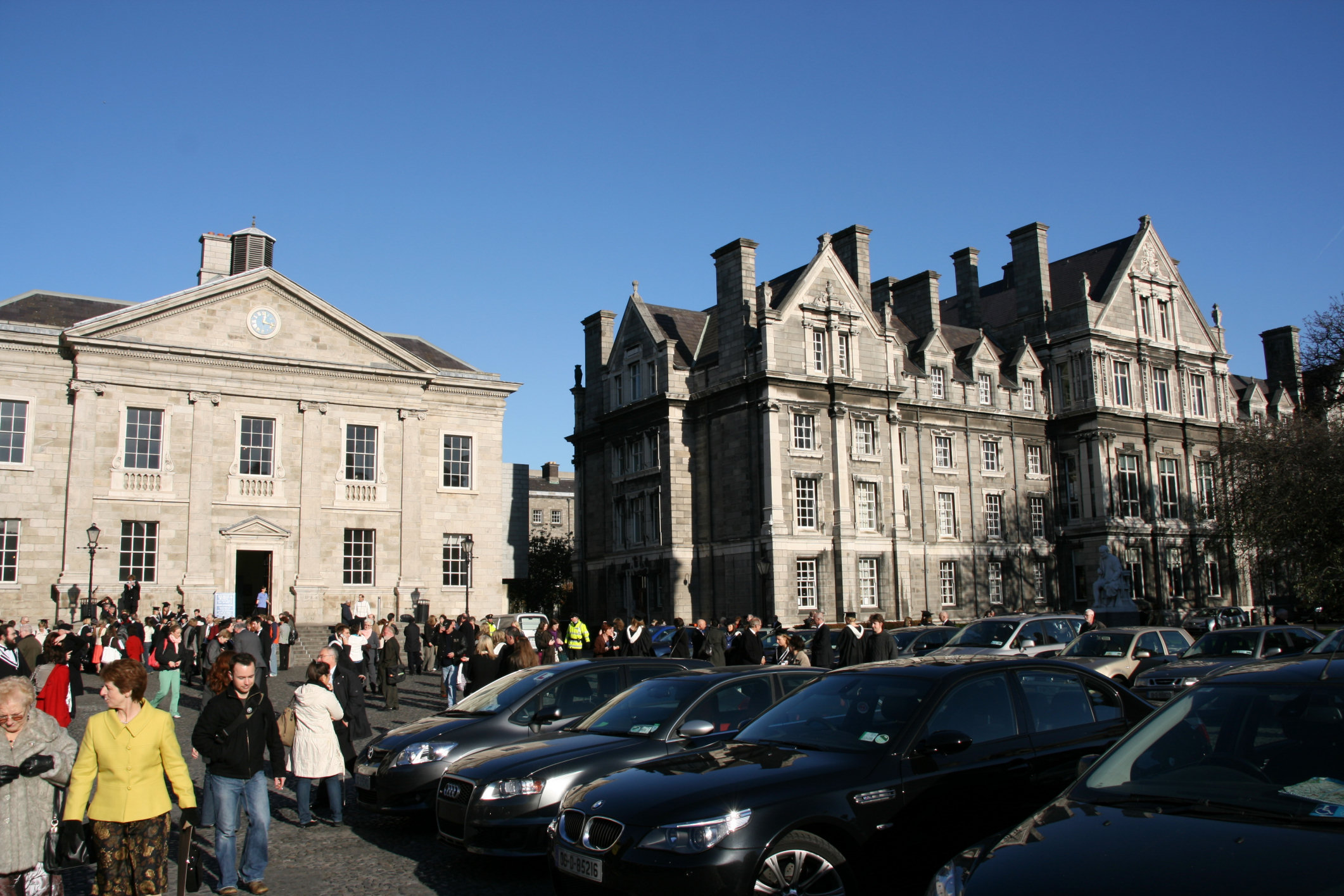 Trinity College in Dublin. Crowds on graduation day.